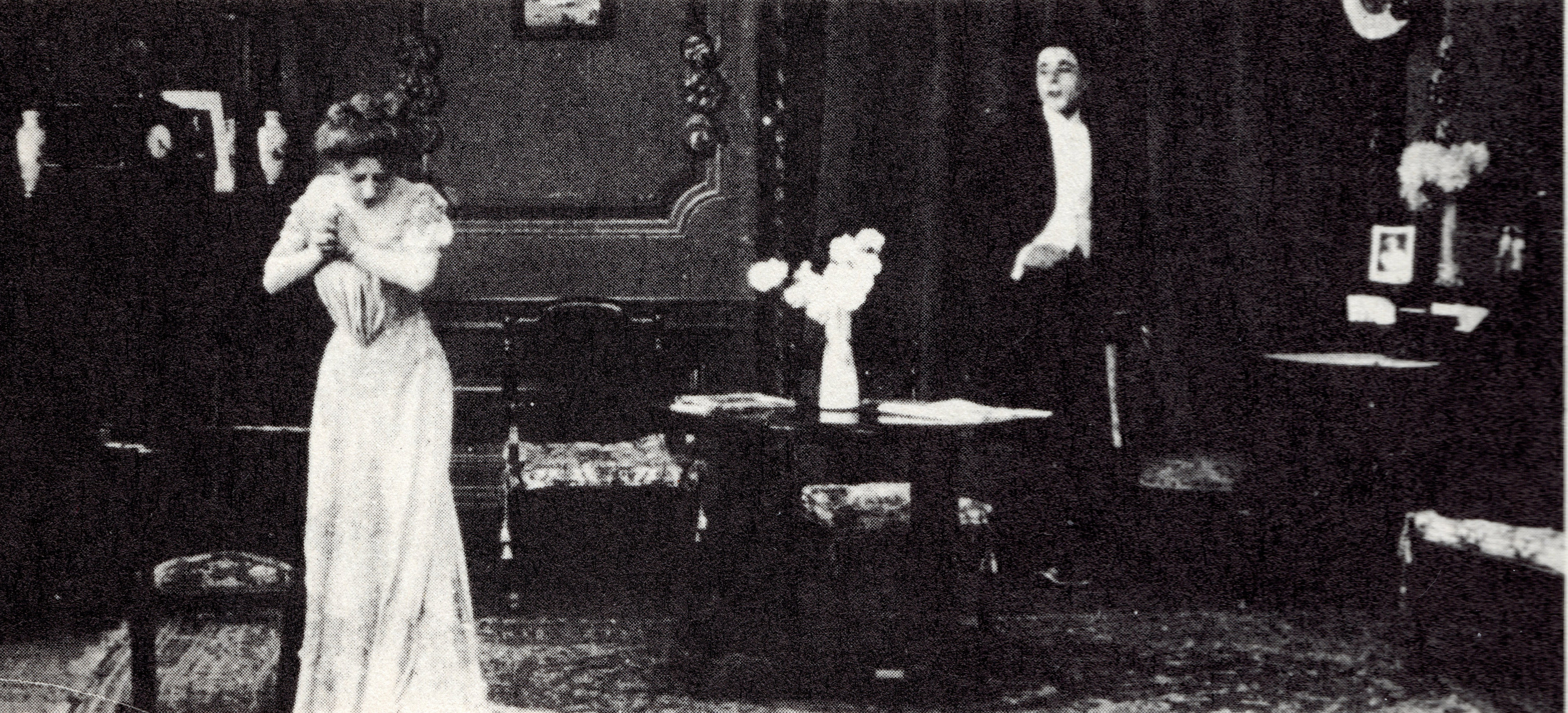 Marion Leonard and D. W. Griffith in 'At the corssroads of life' (1908)